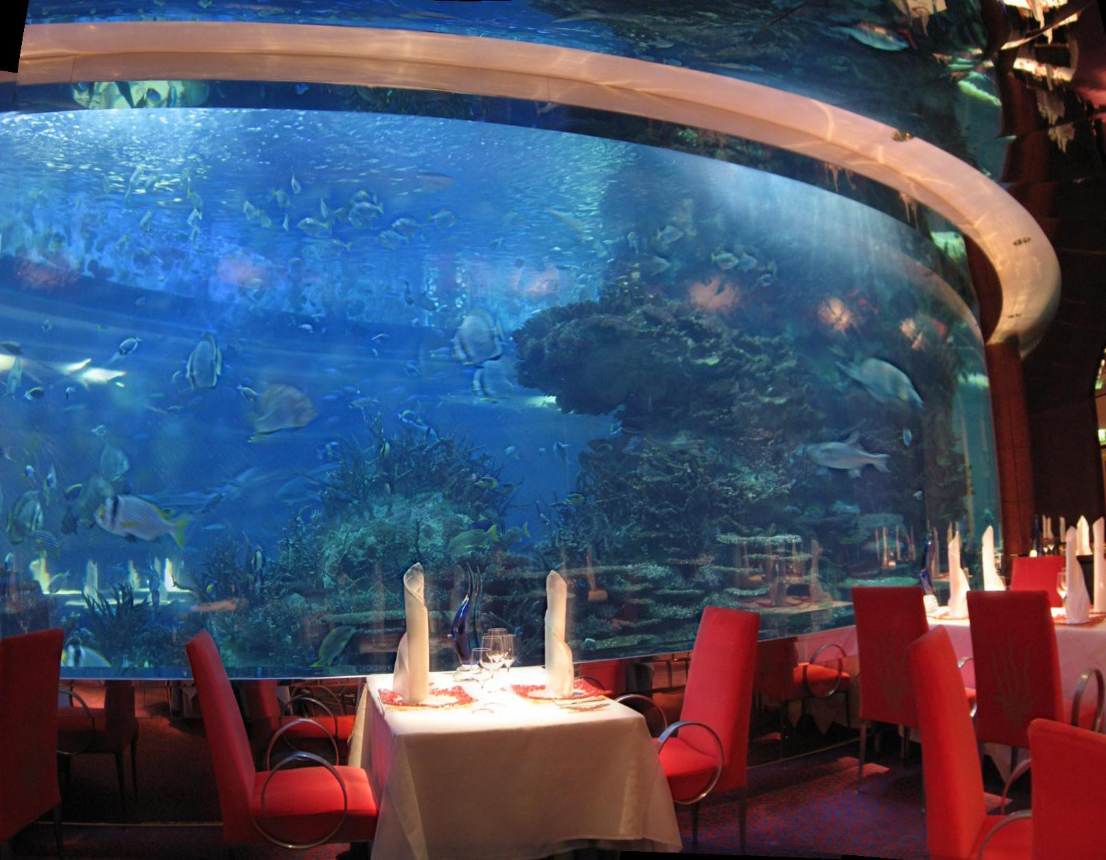 al Mahara restaurant in the Burj al Arab. Fishes include Humphead Wrasse (Cheilinus undulatus), Blacktip Reef Shark (Carcharhinus melanopterus), Fusiliers (Pterocaesio digramma), Red Sea Fairy Baslet (Pseudoanthias squamipinnis), Blue Lined Snapper (Lutjanus kasmira), Big Eye Trevally (Caranx sexfasciatus), Batfish (Platax orbicularis), Leopard Shark (Stegostoma fasciatum), Black Spotted Sweetlips (Plectorhinchus gaterinus), Two Banded Porgie (Acanthopagrus bifasciatus), Hamour (Epinephelus coioides), Soldier and Squirrel Fish (Myripristis murdjhan, Sargocentron diadema), Leopard Moray Eel (Gymnothorax favagineus), Blue Barred Parrotfish (Scarus ghobban), Moorish Idol (Zanclus cornutus), Unicorn Fish (Naso brevirostris), Yellow Bar Angelfish and Red Sea Raccoon Butterfly Fish (Pomacanthus maculosus, Chaetodon fasciatus), Green Chromis and Halfmoon Damsel (Chromis viridis, Dascyllus marginatus). The aquarium is run by the National Marine Aquarium in Plymouth, UK. There are two other tanks in the lobby of the hotel. Each of the tanks cointain 300,000 litres of salt water. The window is made out of acrylic and is 18 cm thick, and cleaned every couple of days. The fish are fed each day, some by hand, by experts who spend hours per day preparing the food.